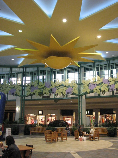 Photo by DangApricot of the sunken plaza at the center of Summit Mall in Fairlawn, Ohio.